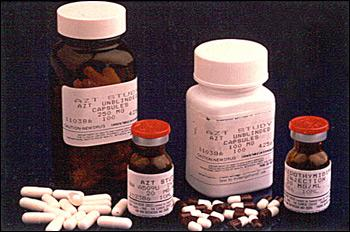 AZT (zidovudine), the first medication shown to be effective against HIV. From the National Institutes of Health website (